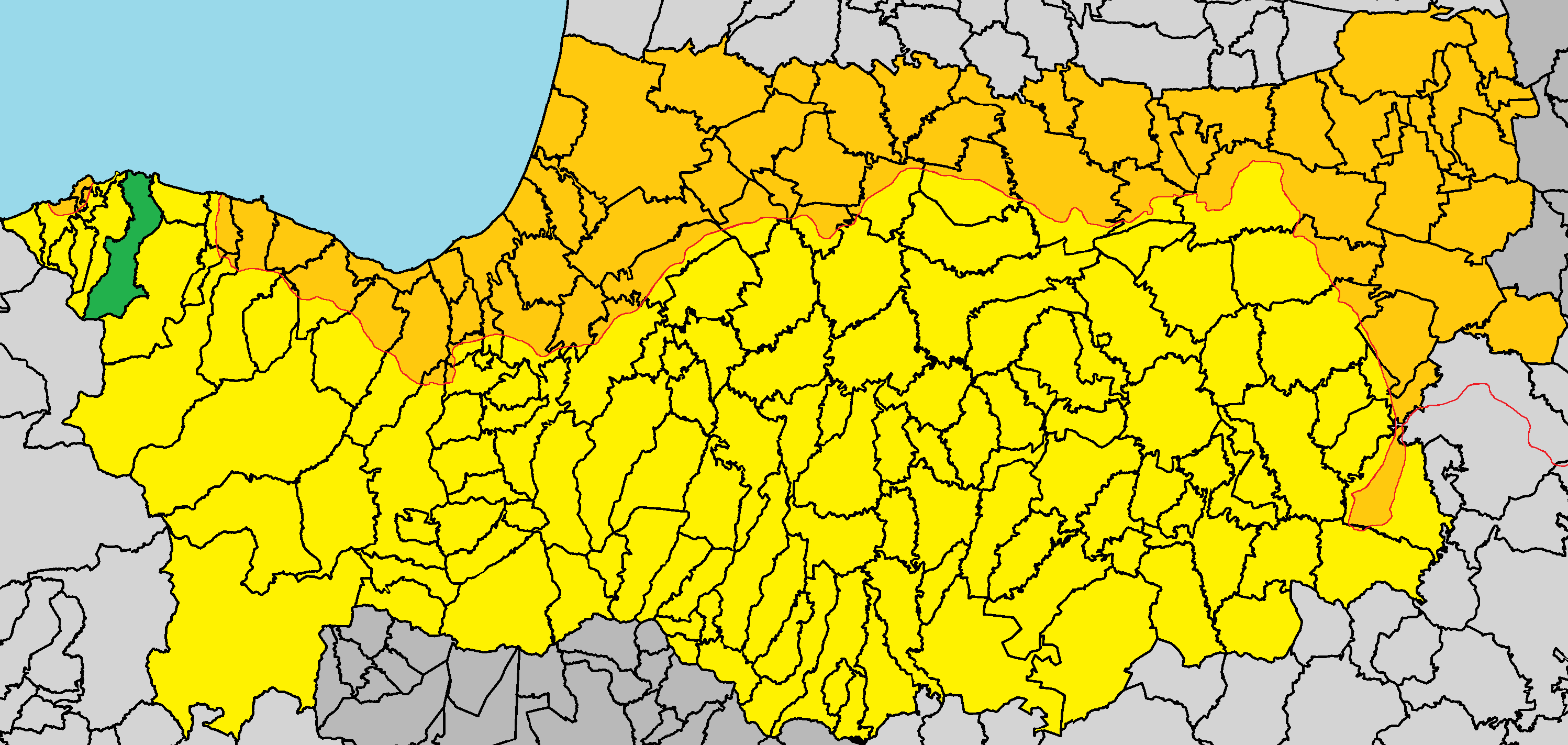 Pigenia in Nicosia District.